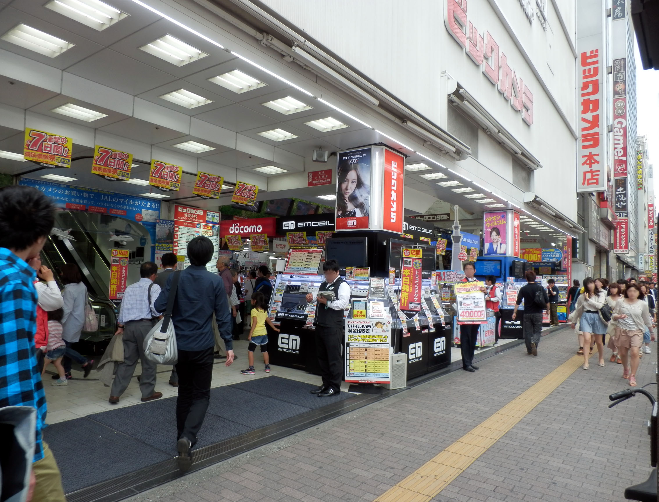 Entrance of Bic Camera Home Store at Ikebukuro, Tokyo